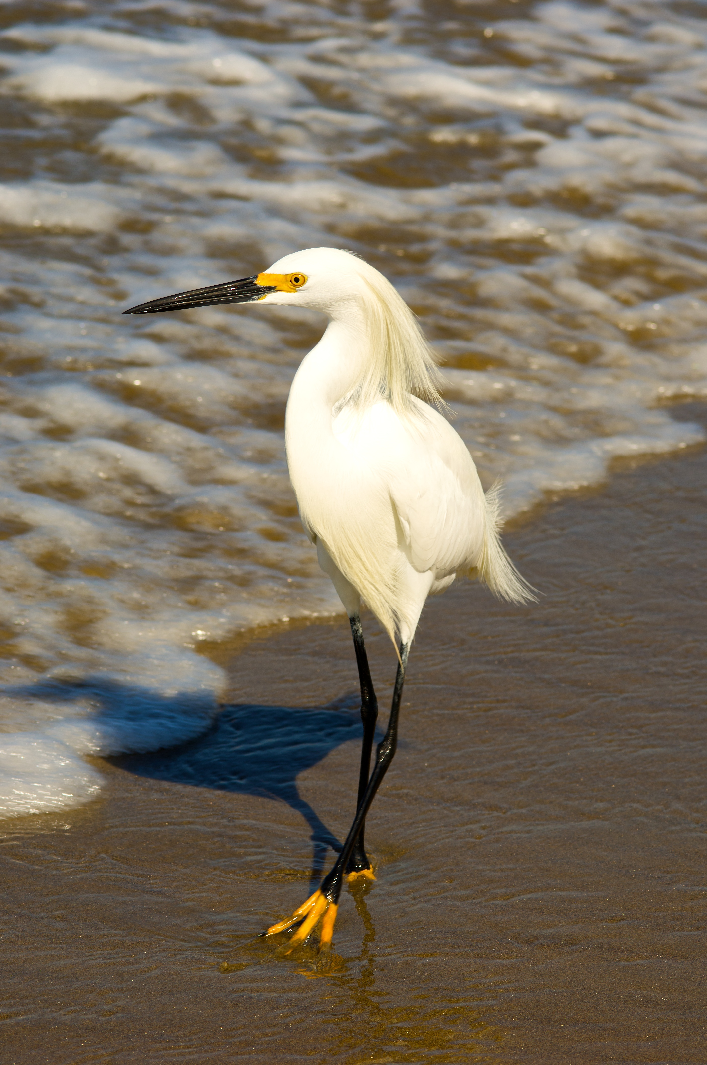 An adult Snowy Egret in breeding plumage photographed in Mexico.